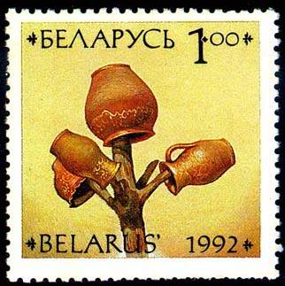 Stamp of Belarus